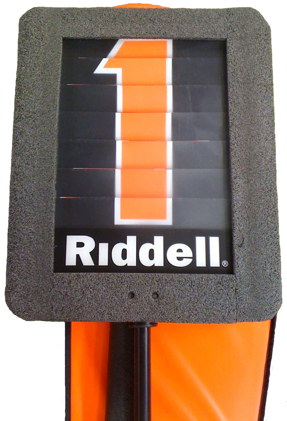 Down marker indicating first down with the orange Line of scrimmage marker showing behind it.